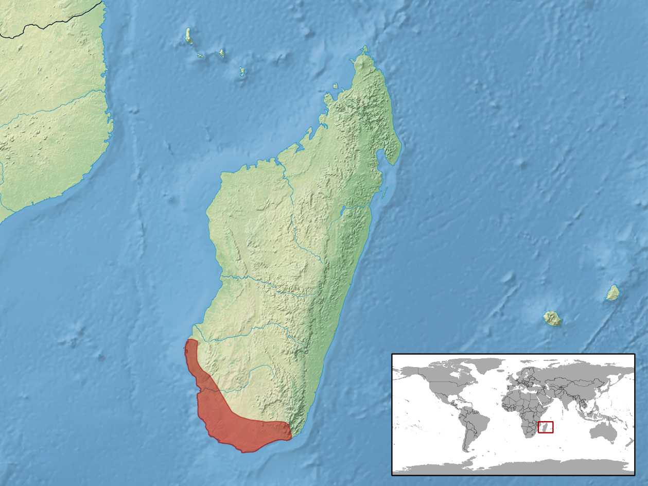 geographic distribution of Voeltzkowia lineata